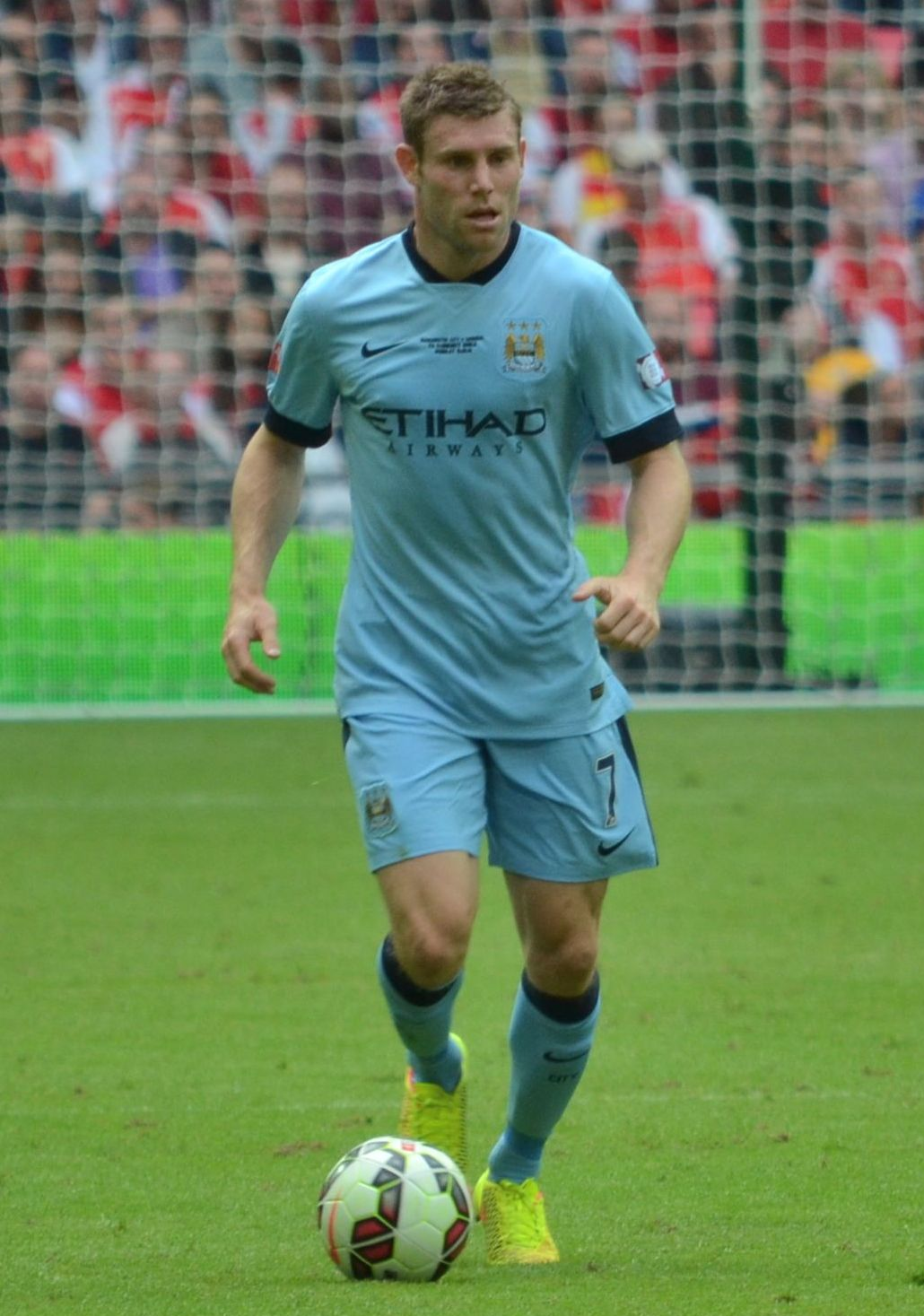 James Milner playing in the 2014 FA Community Shield match between Manchester City and Arsenal.